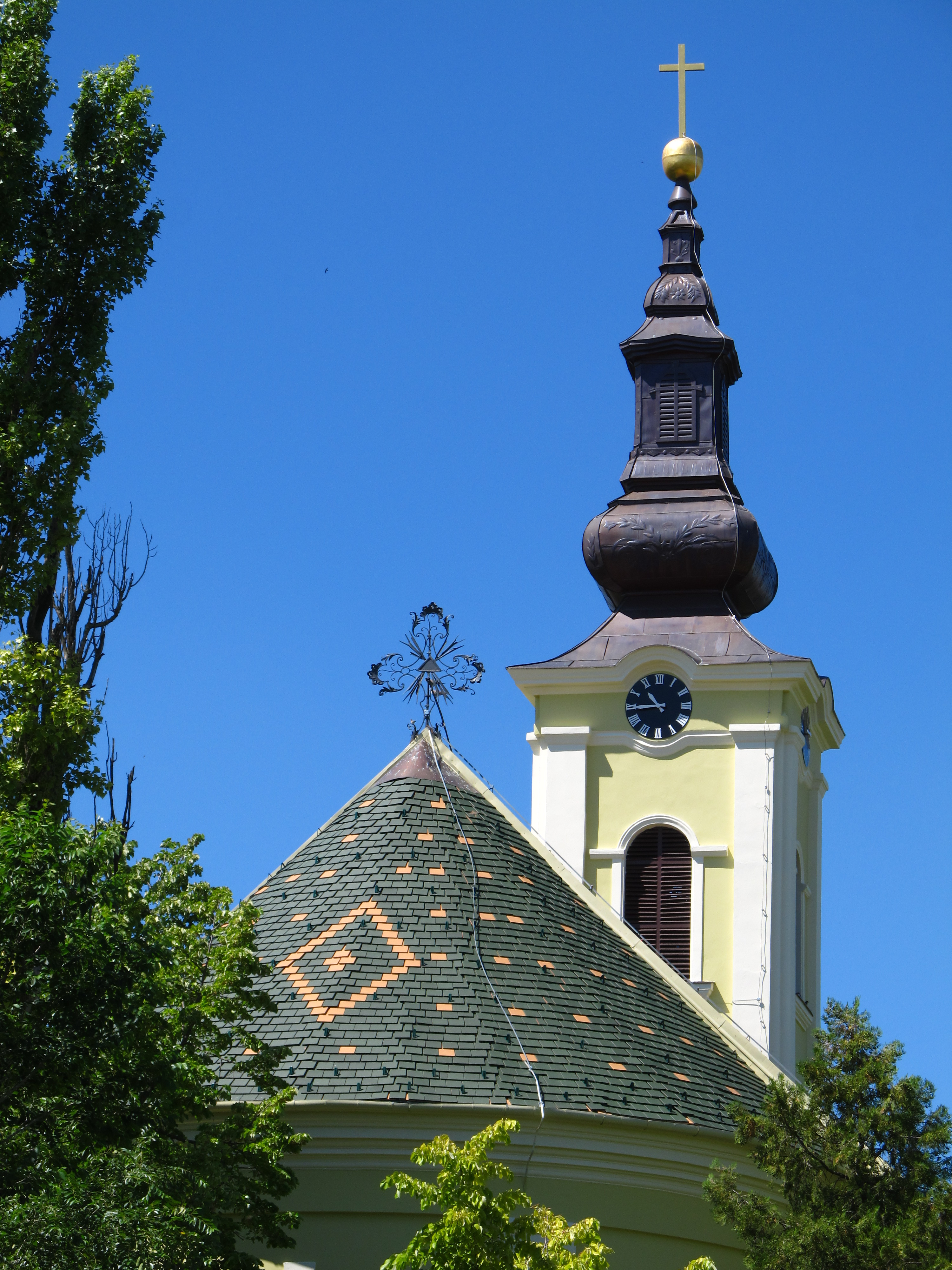 Serbian Orthodox church of Saint Sava and Saint Simeon in Srpski Itebej - bell tower